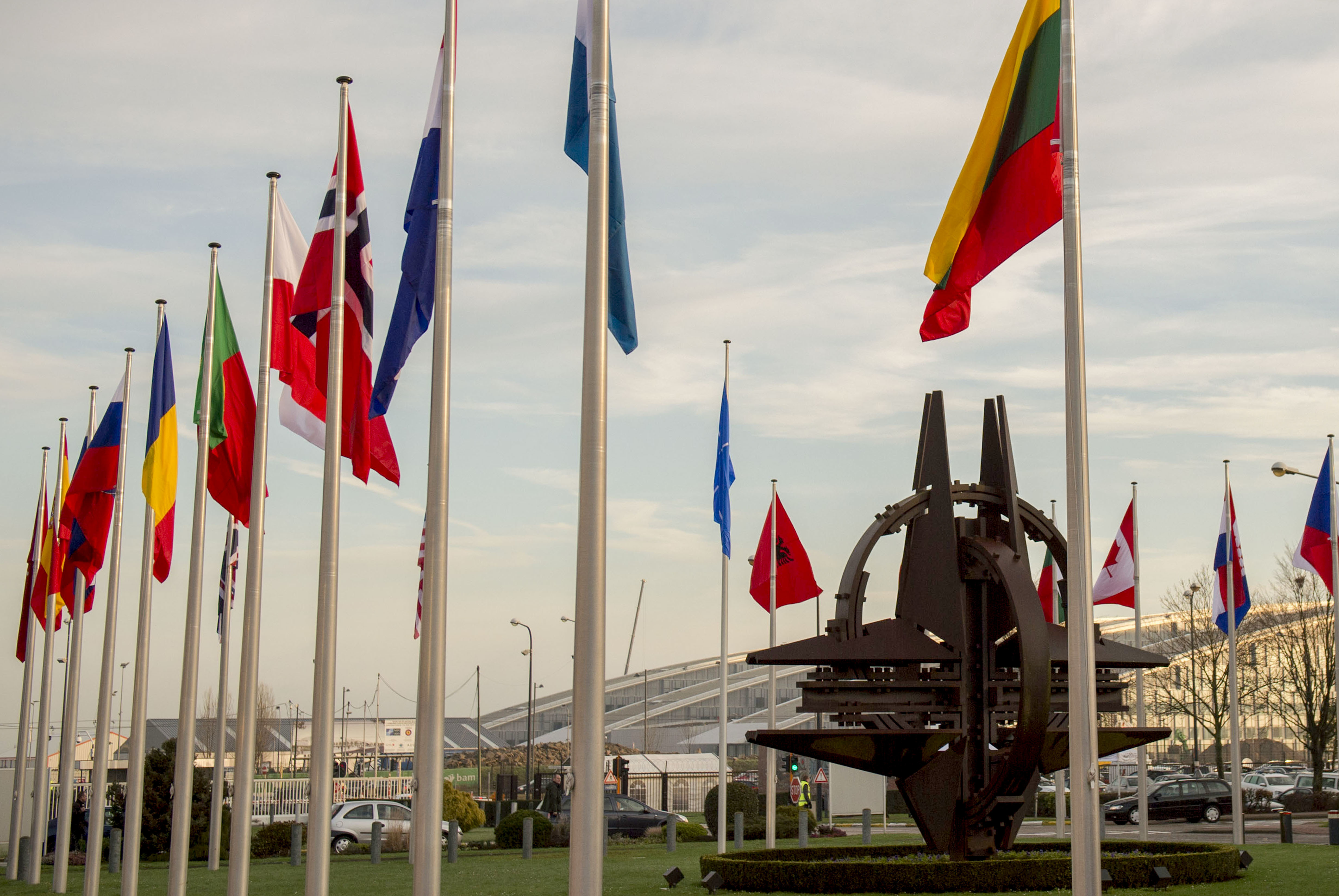 NATO country flags wave at the entrance of NATO headquarters in Brussels, Feb. 11, 2016. DoD photo by Air Force Senior Master Sgt. Adrian Cadiz